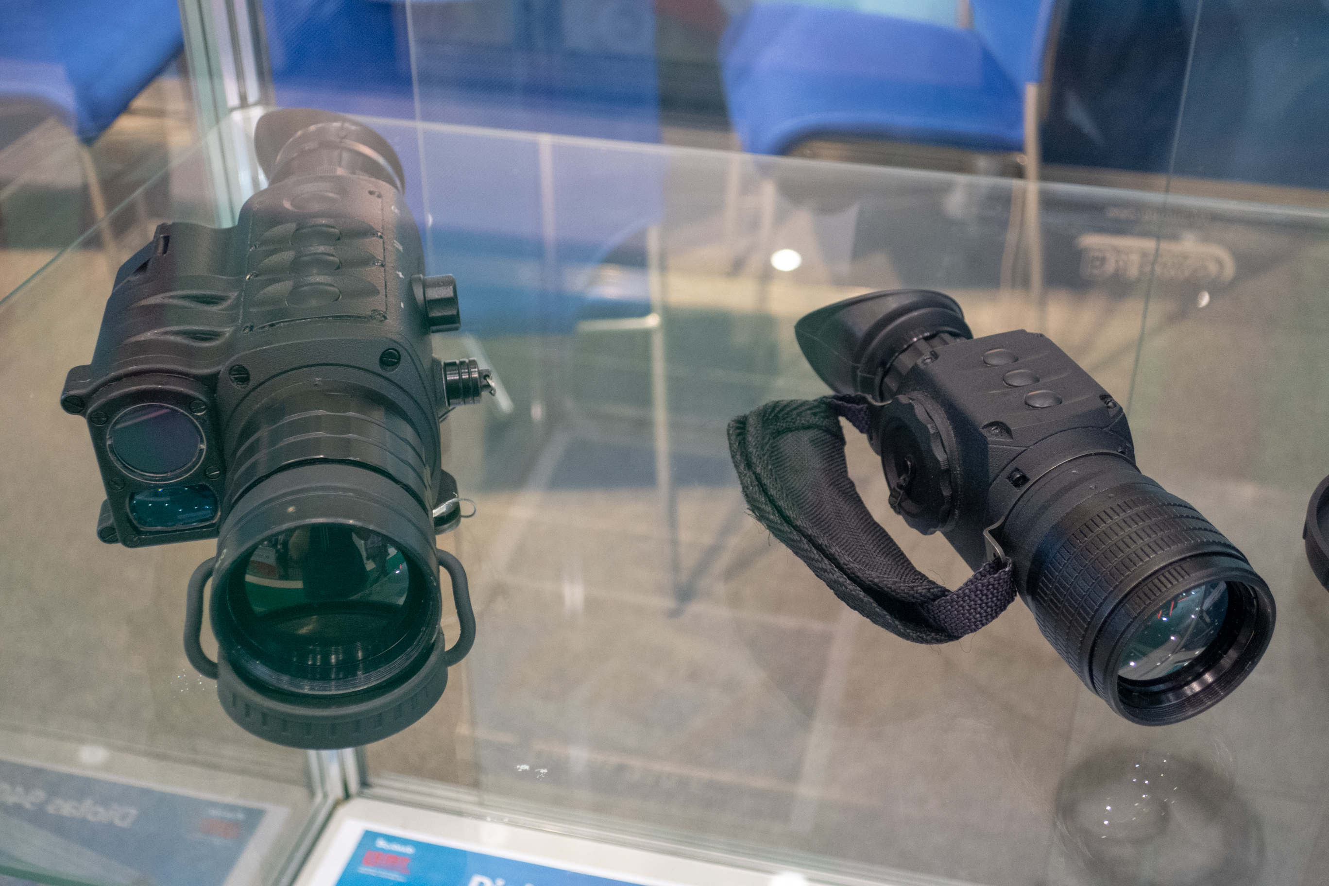 Production of BelOMO company (Belarus)